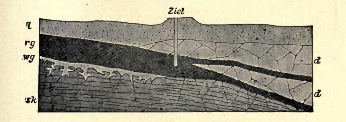 Geological section through the Judith and Scharley zinc ore mines (originally in Germany; now in Poland, Piekary Śląskie) by Ferdinand Roemer. Legend: l: clay; d: dolomite; sk: basal limestone; wg: white calamine; rg, red calamine.